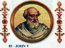 Pope John V